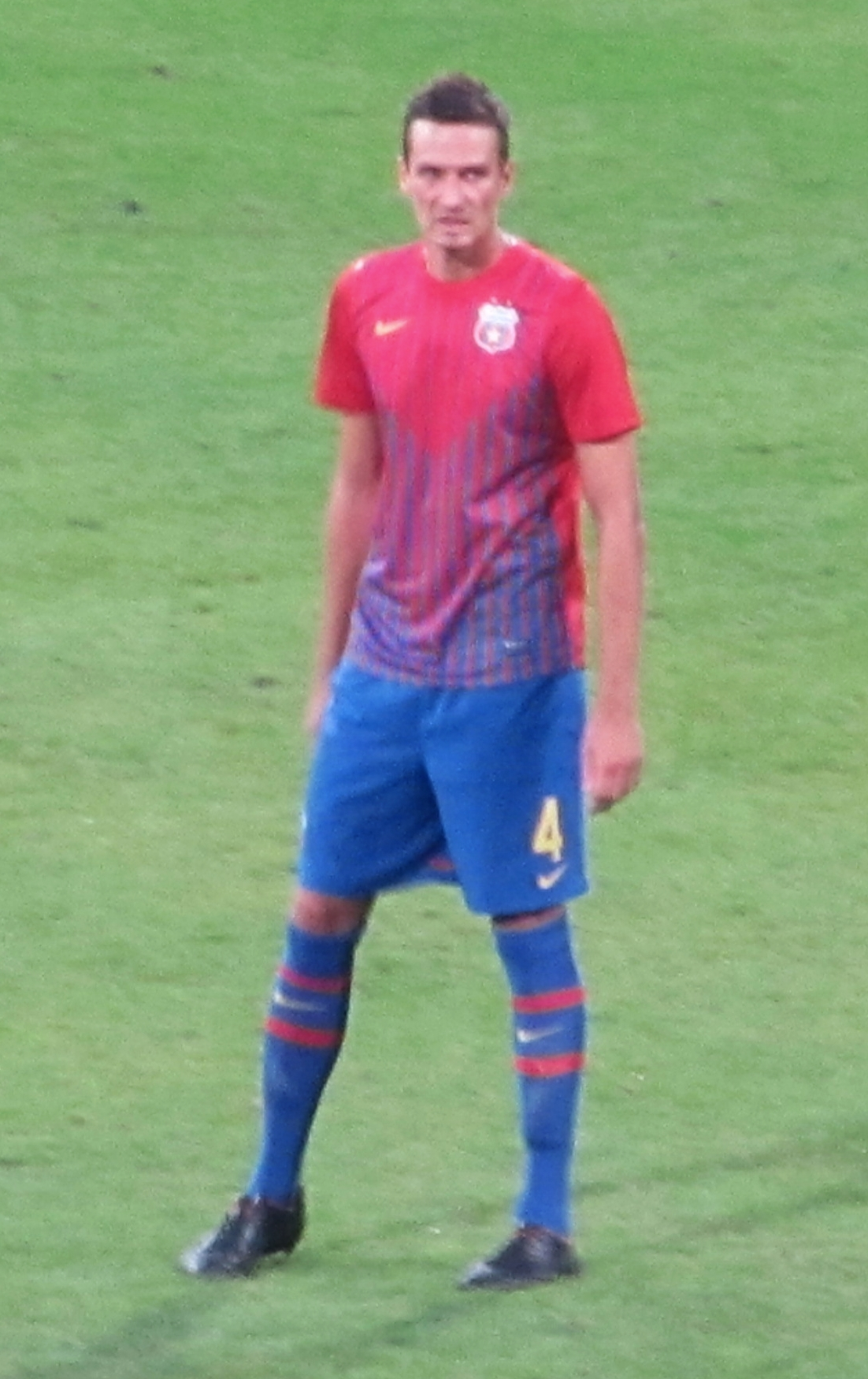 Łukasz Szukała playing for FC Steaua București